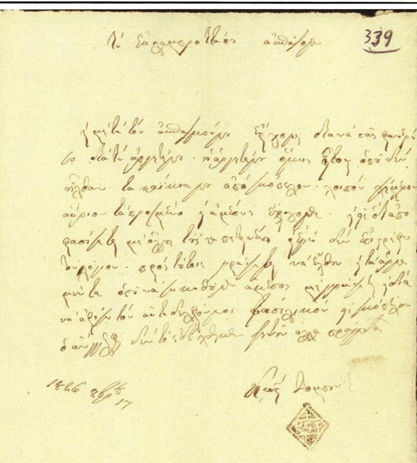 Konstantinos Doumbiotis Letter